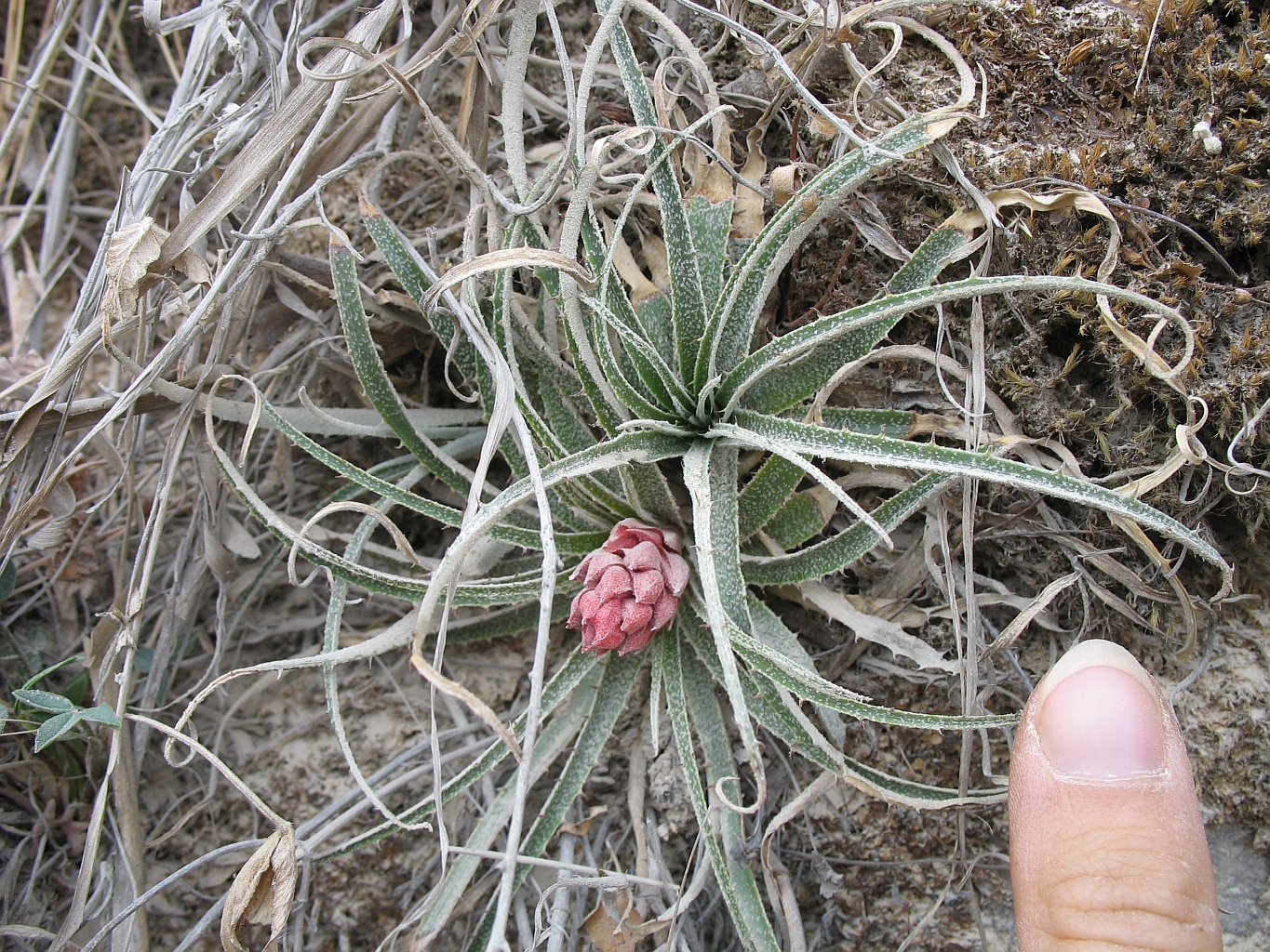 Puya minima in habitat in Bolivia, exact location unknown.